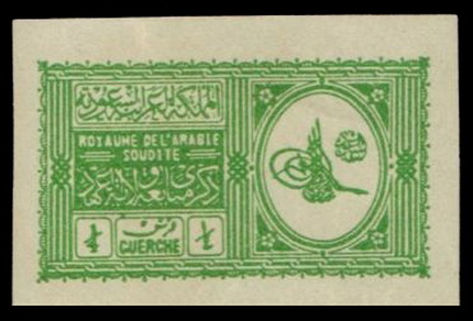 The first postage stamp of the Kingdom of Saudi Arabia, 1934, 1/4g, Scott #138. Proclamation of Emir Saud as Heir Apparent of Arabia.